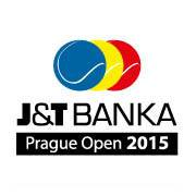 Prague Open logo in 2015